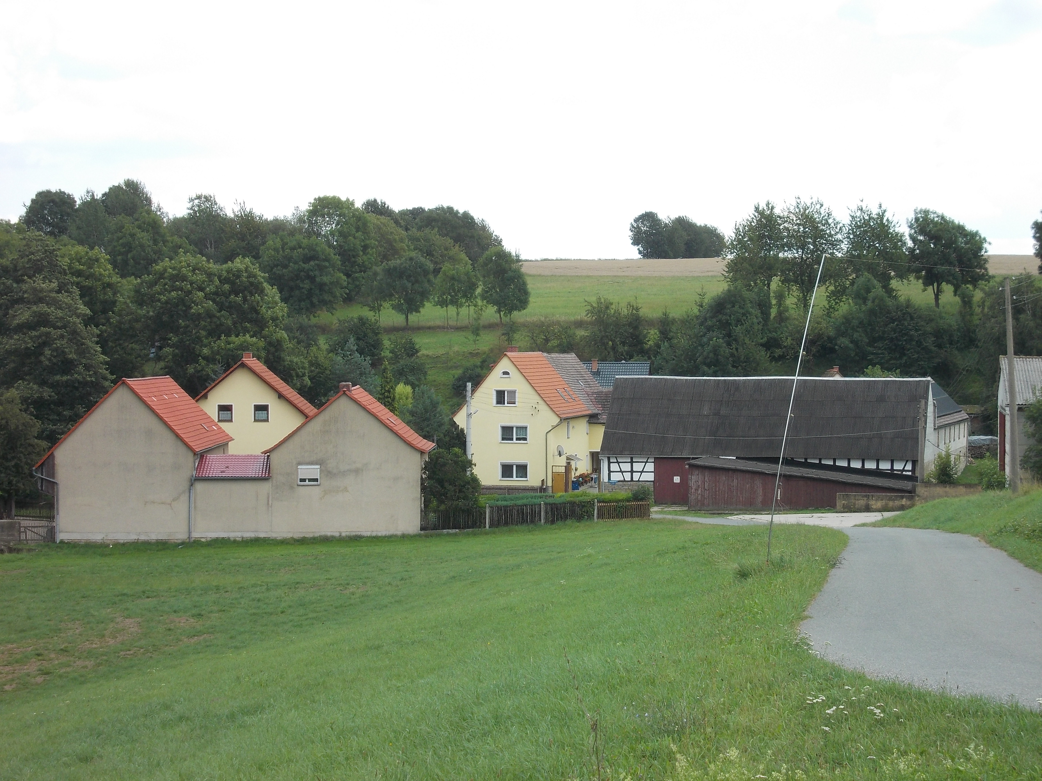 Kolbis Mill near Kleinpörthen (Schnaudertal, district: Burgenlandkreis, Saxony-Anhalt)